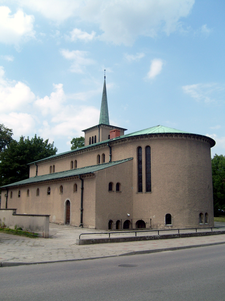 The church in Człopa, Poland.